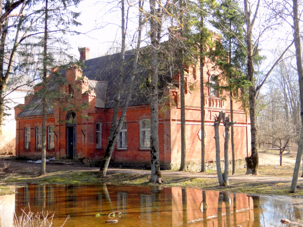 Kurmene manor house